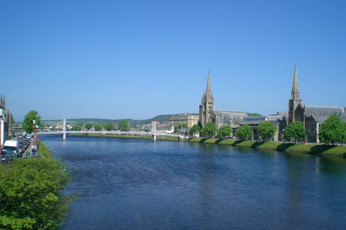 View of the River Ness looking on to Inverness